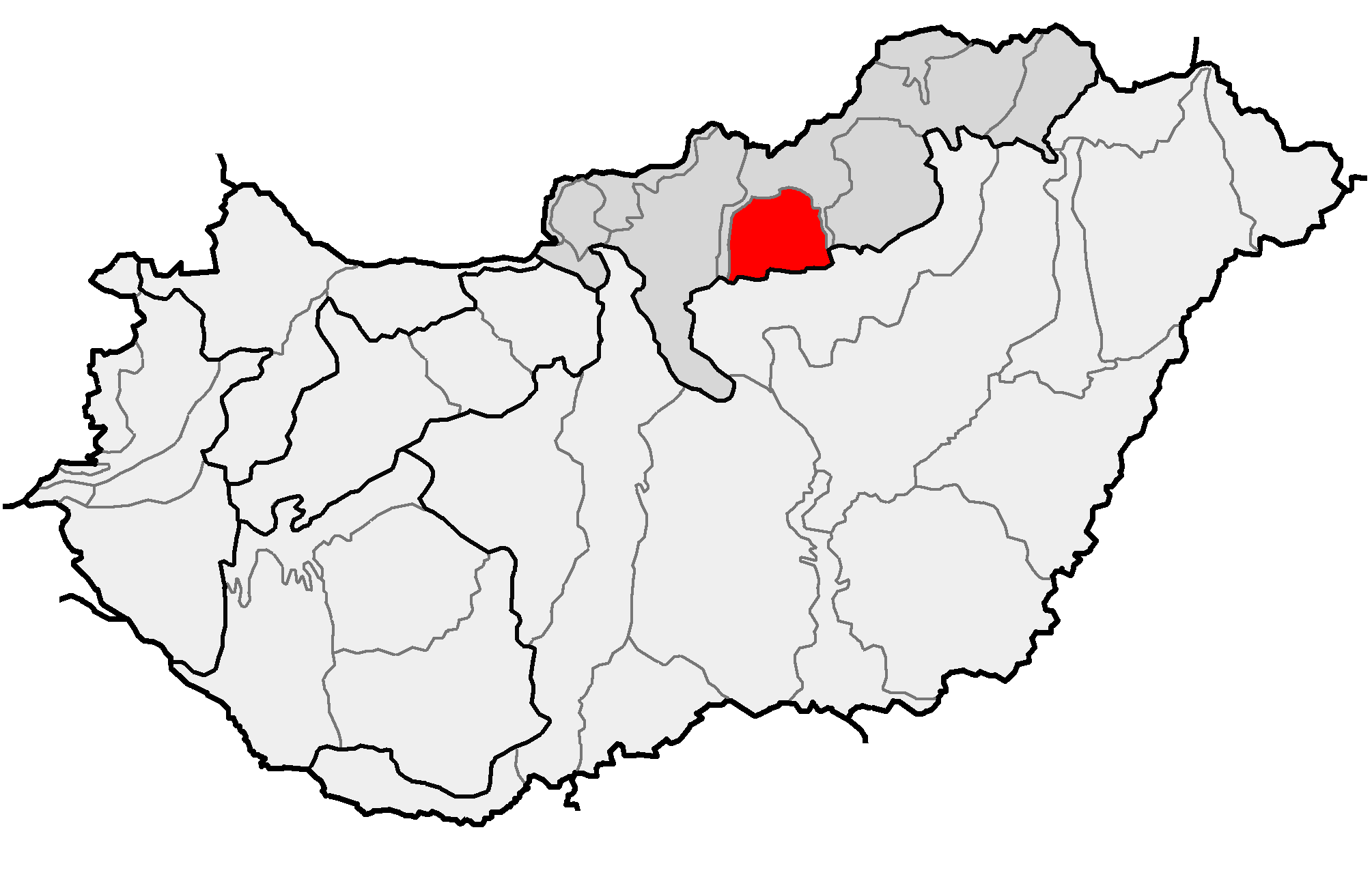 Location of geographical mesoregion of Mátra-vidék (red) and macroregion of Északi-középhegység (gray) within subdivisions of Hungary.